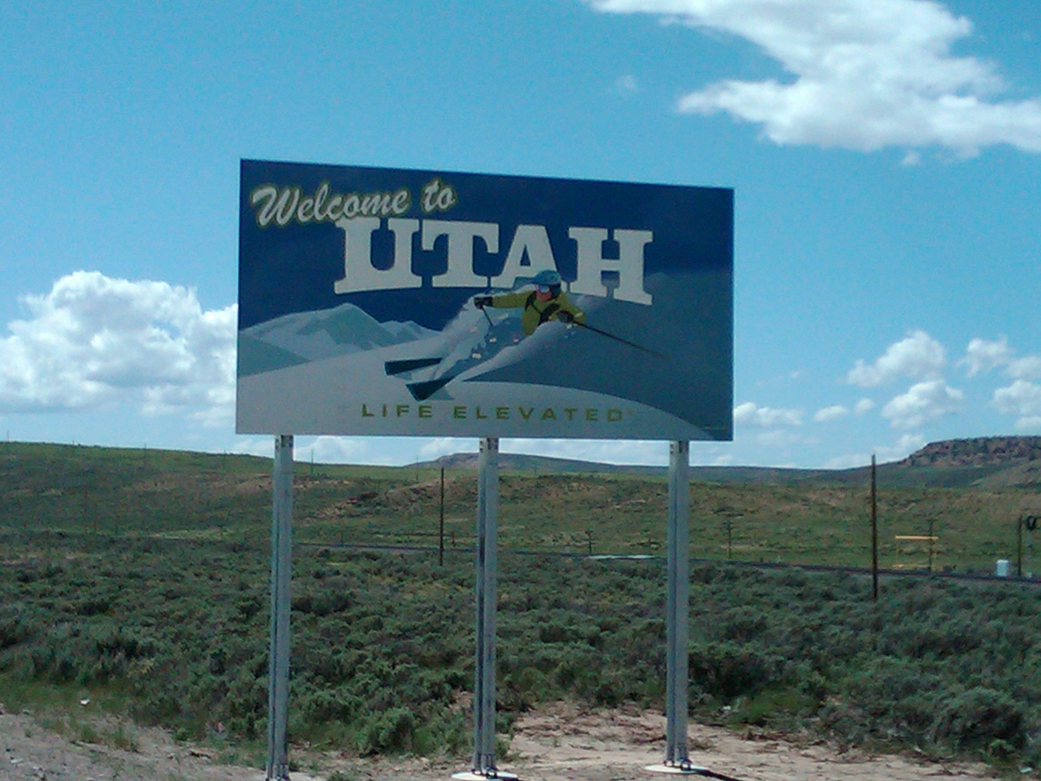 Utah Welcome Sign on the Utah-Wyoming State line.